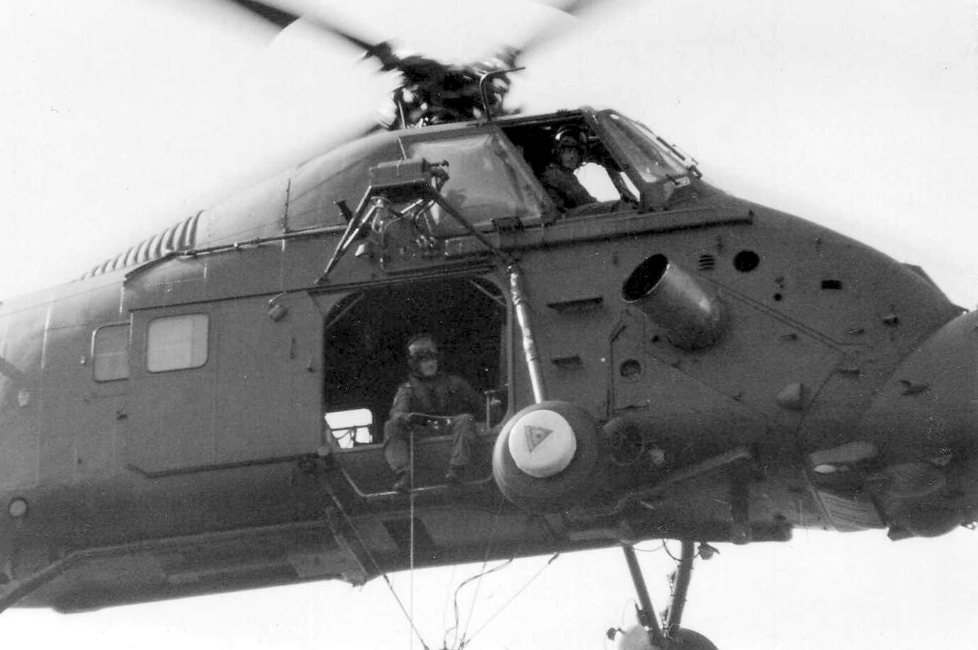 A Wessex helicopter at Ascension Island in May 1982